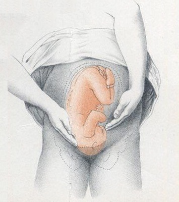 Leopold's Maneuver 4